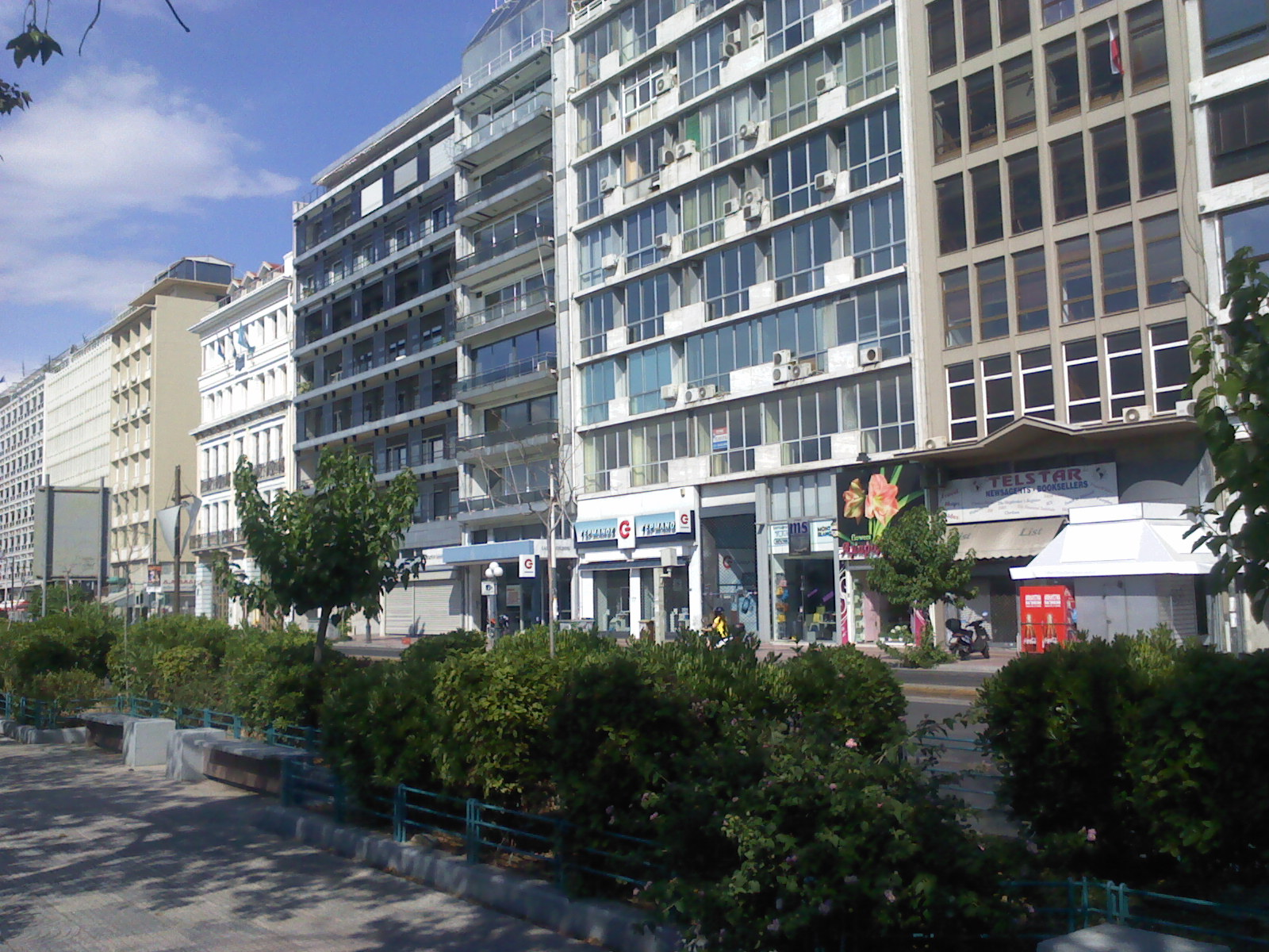 Naval companies in Troumpa